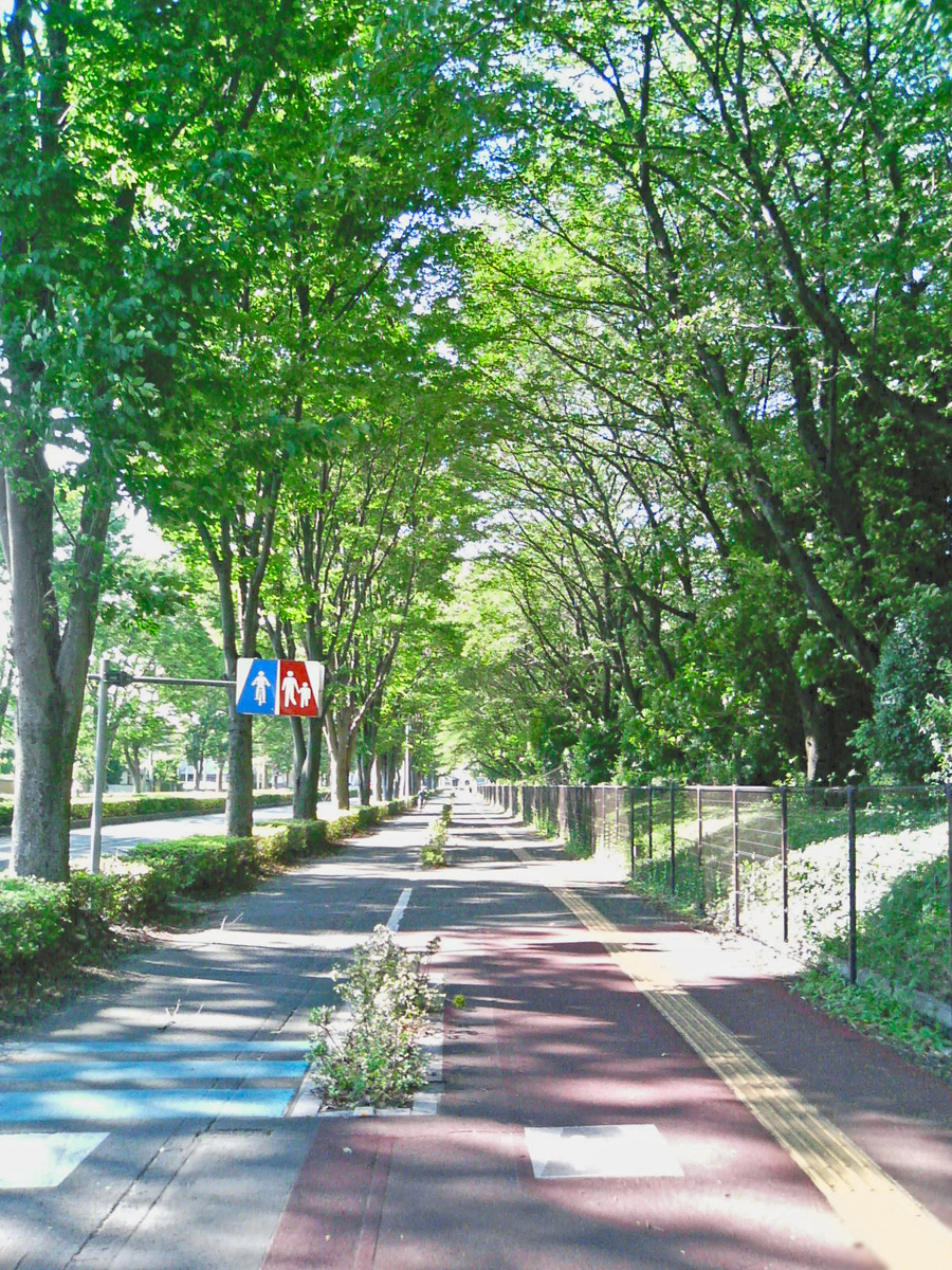 Kōen-dōri Ave. - A road around the National Rehabilitation Center, with a colored bicycle lane, located between Kōkū-kōen Station and Shin-Tokorozawa Station, in Tokorozawa city, Saitama pref., Japan. blue; for bicycles, red; for walk, yellow; for the blind , and green; is beautiful:)